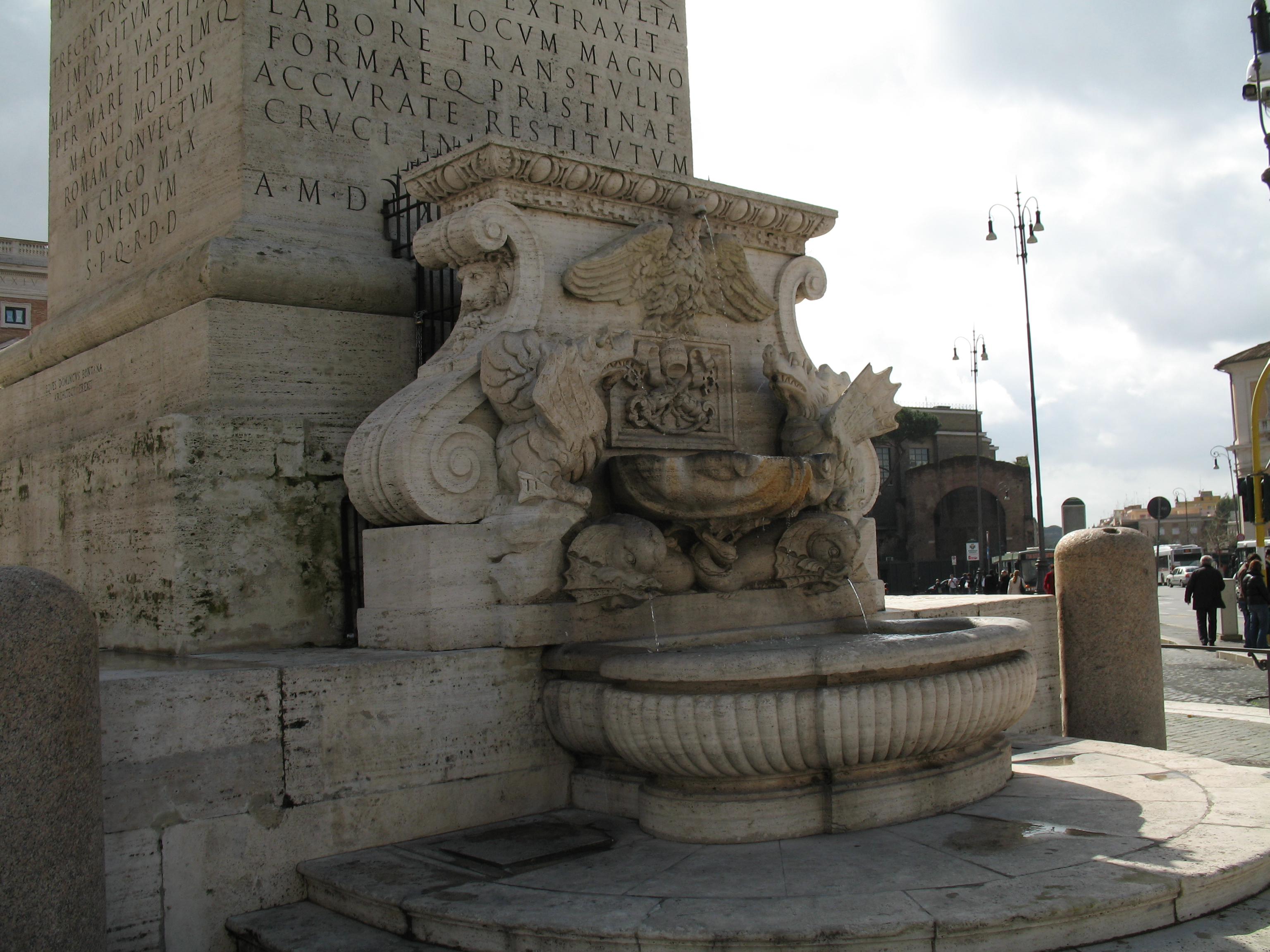 Fountain in the pedestal of the obelisk that was erected by Domenico Fontana in front of the northern facade of S. Giovanni in Laterano